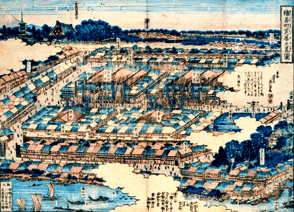 Saruwaka-cho Shibai no Ryaku-zu, by Eisen Keisai